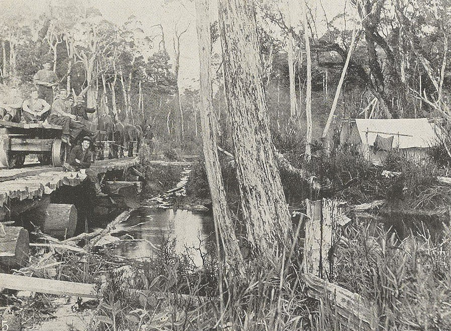 Building the Marrawah Tramway - Bridging the Welcome River, 1913. From the Weekly Courier, 13 March 1913, p.20.